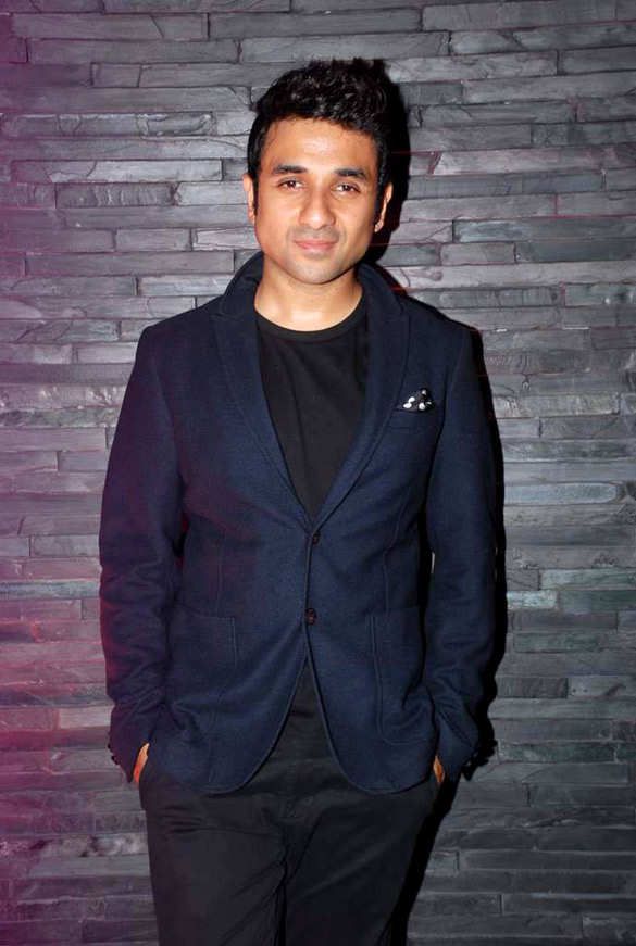 Vir Das introduce standup comedy at Apicus